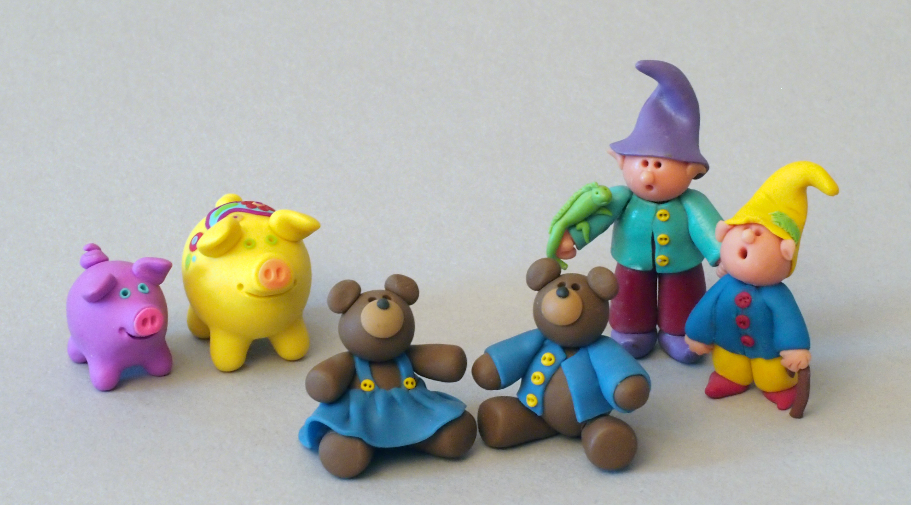 Figurines made from polymer clay, approximately 1-2" tall.